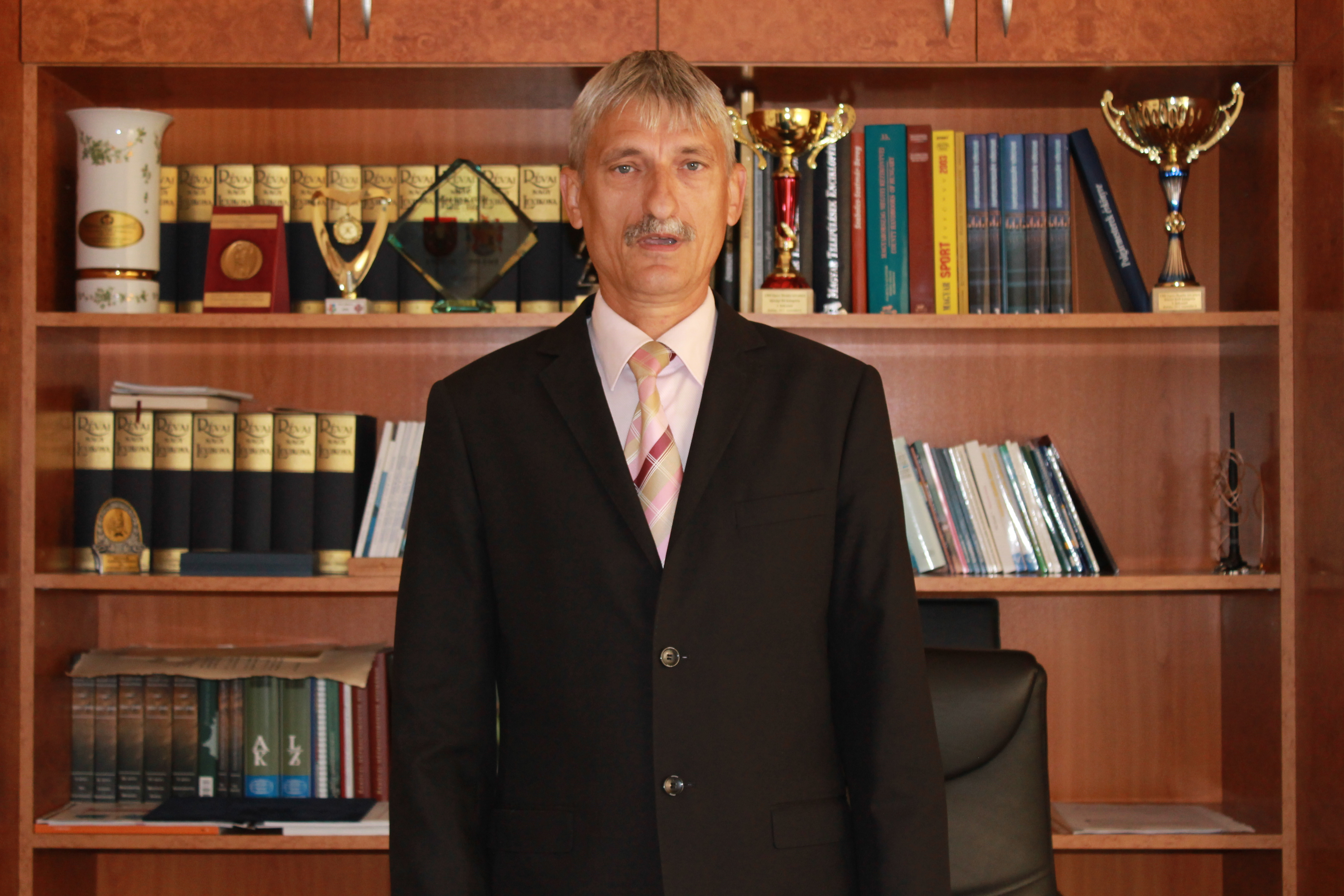 László Pálosi, mayor of Balkány